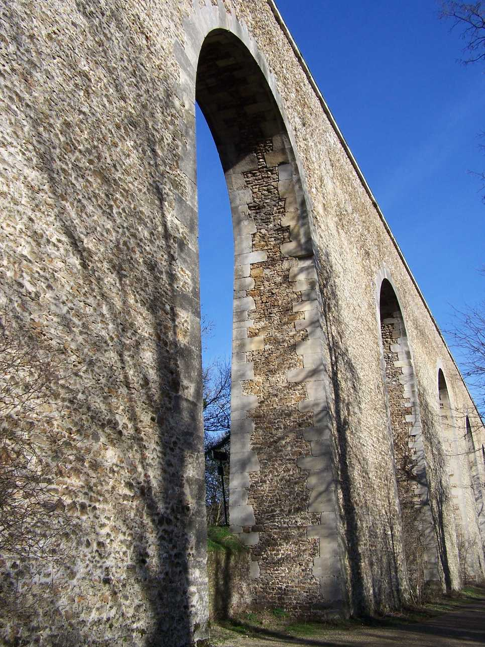 Arches of the aqueduct of Buc (Yvelines, France)